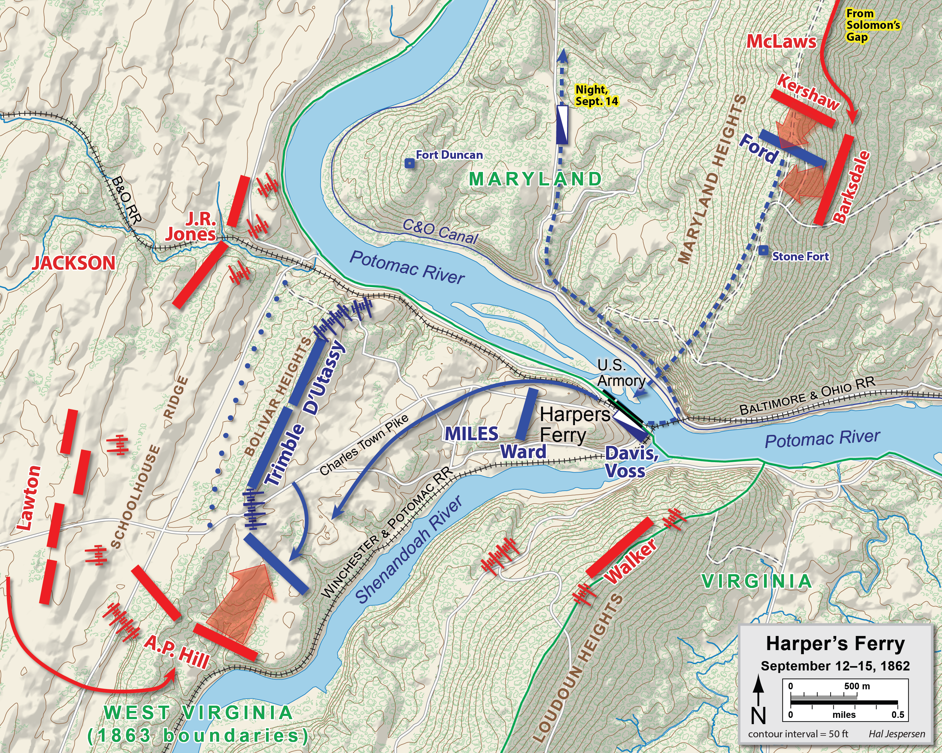 Map of the Battle of Harpers Ferry of the American Civil War, drawn in Adobe Illustrator CS5 by Hal Jespersen. Graphic source file is available at